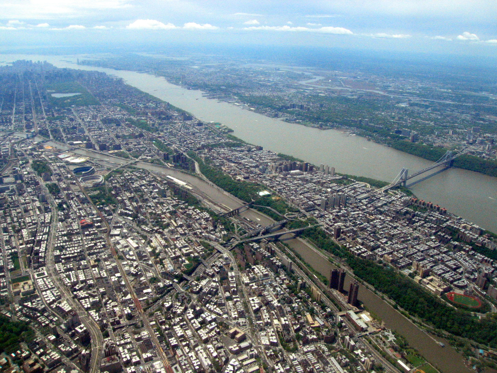 Looking southwest at New York City from the plane/by air.